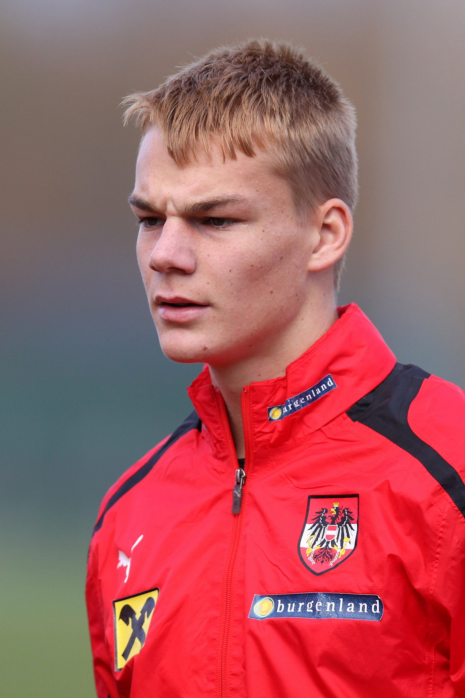 Teamcamp of the Austria national under-21 football team from 9. to 14. Novembber 2015 in Bad Erlach – The photo shows Philipp Lienhart (Real Madrid CF).